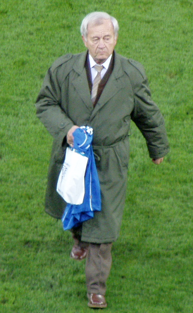 Gábor Madár Hungarian association football player and association football coach.